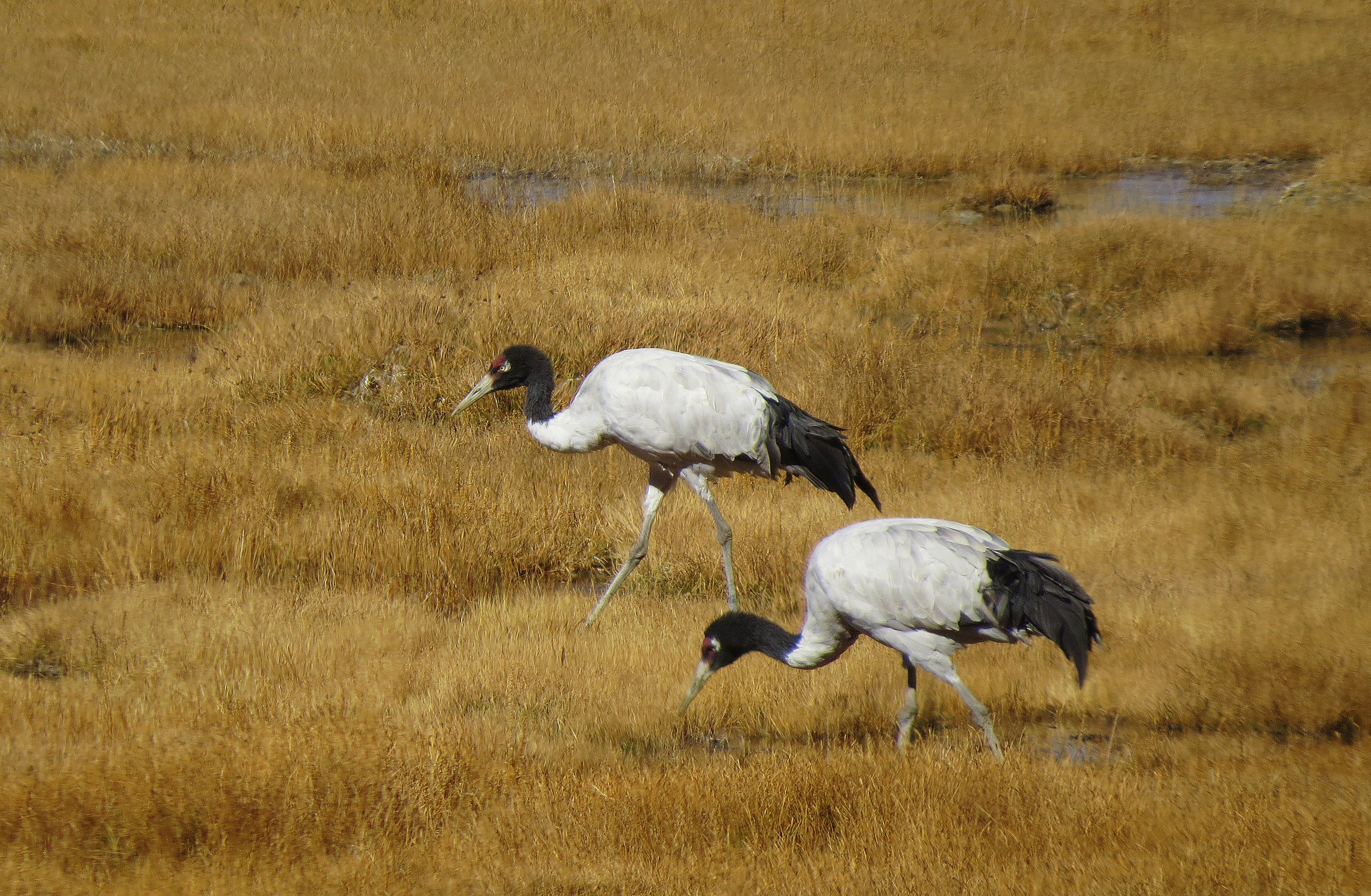 Black Necked Cranes (Grus nigricollis) pair at Tsokar, Ladakh – These birds are one of the rarest species found in India, about a 100 odd pairs have made Tsokar and its adjacent areas their breeding grounds.These birds feed on small arthropods,reptiles and crustaceans. These need to conserved at the earliest. The birds are magnificent and do not fear humans much as I could approach them from quite a close distance for the shots.